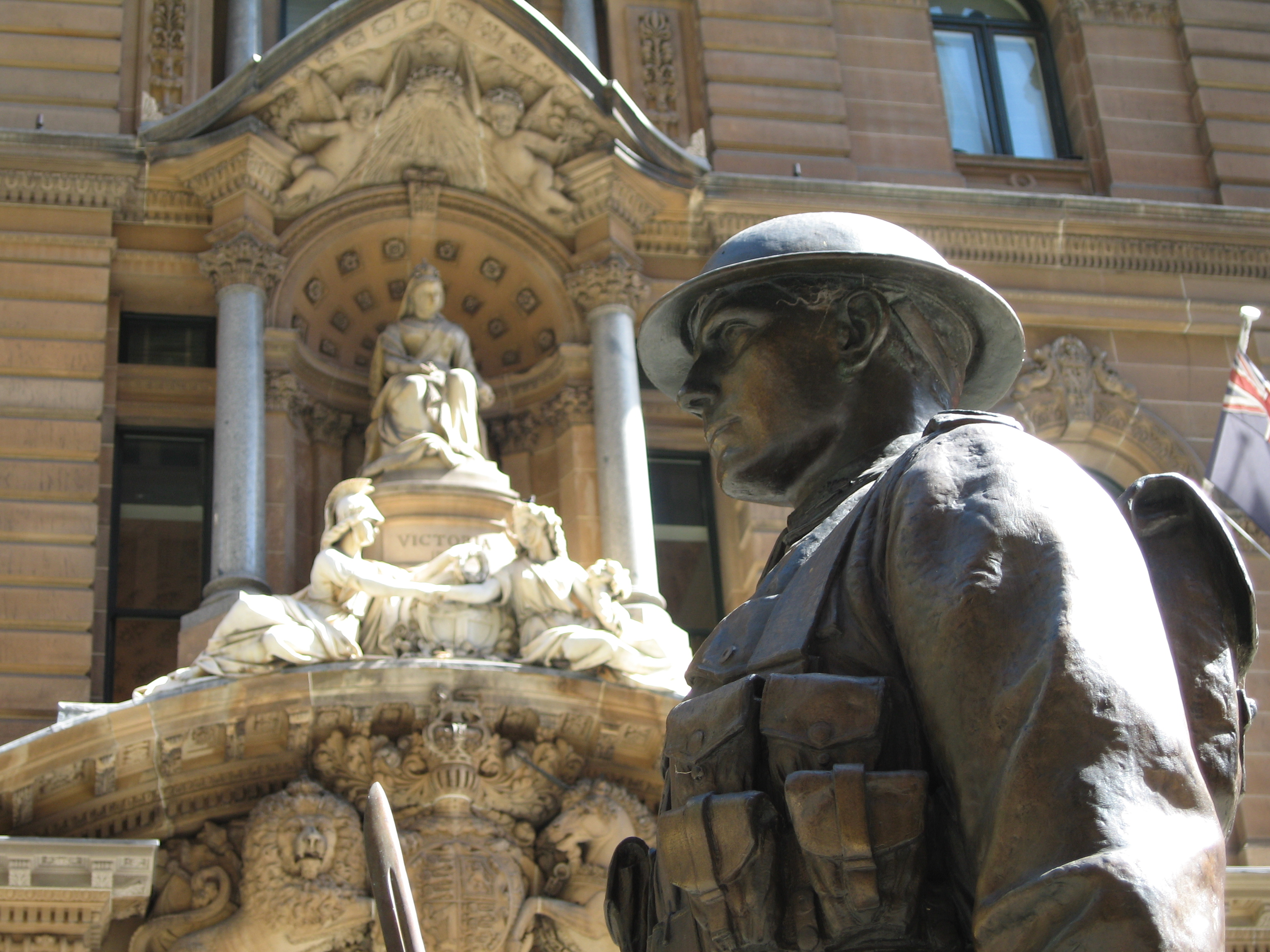 Cenotaph's bronze AIF soldier with GPO's Queen Victoria in background, Martin Place, Sydney, Australia.